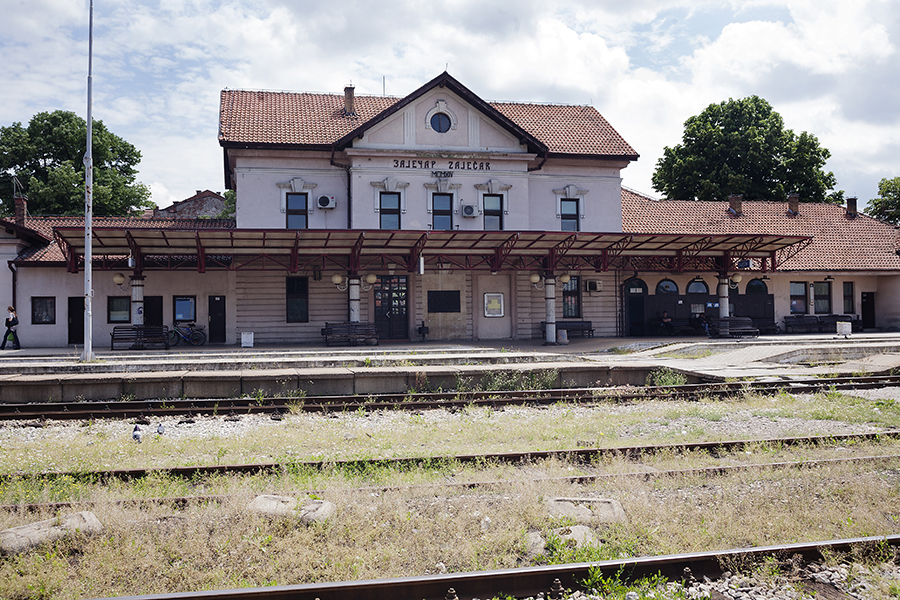 Railway station in Zaječar, 1913-1914.